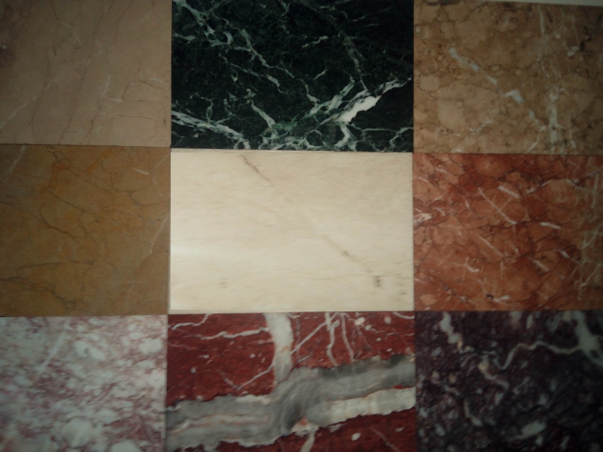 colors or various greek marbles